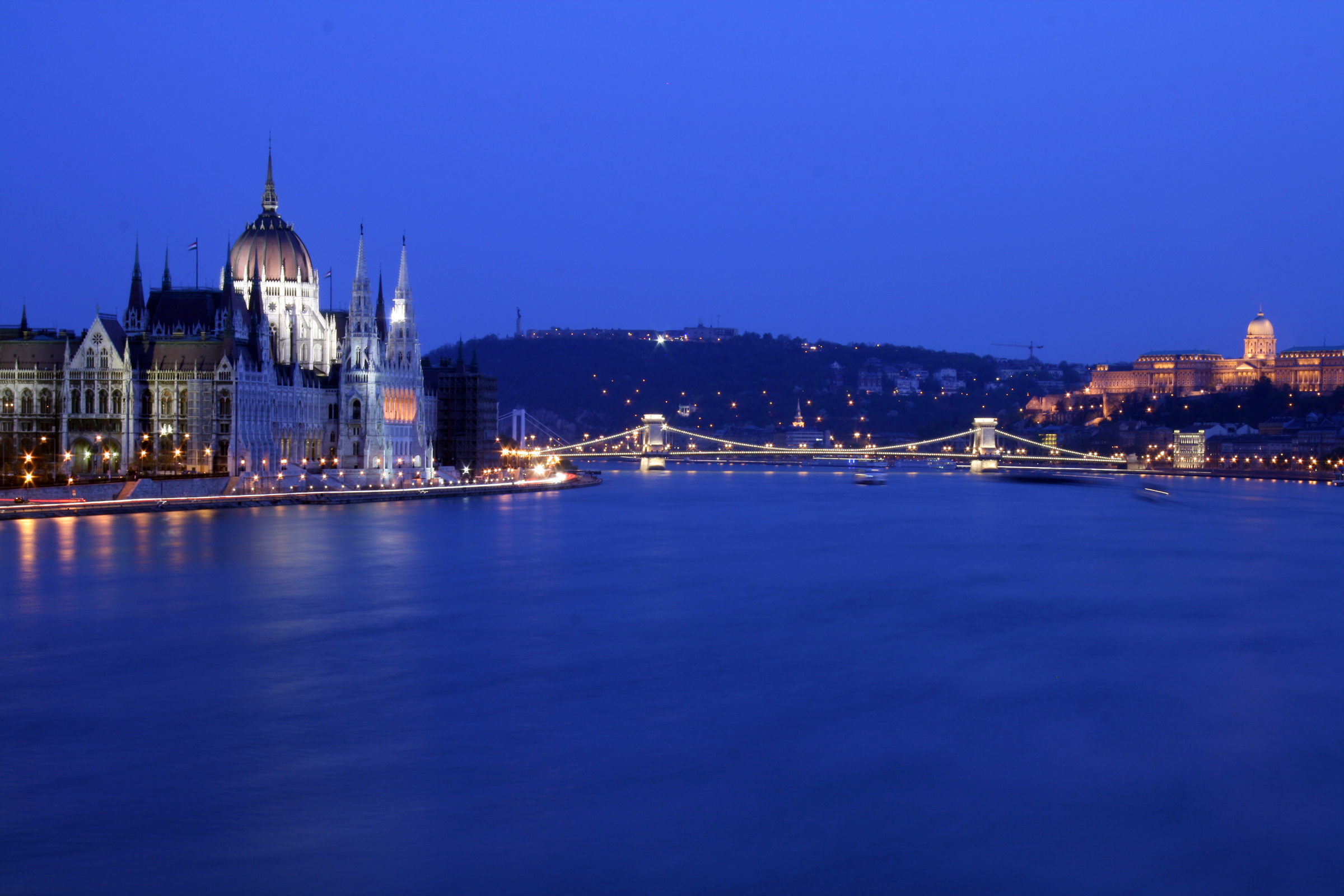 Night view on Budapest panorama from bridge over Danube river - Parliament of Hungary and Széchenyi bridge,Hungary